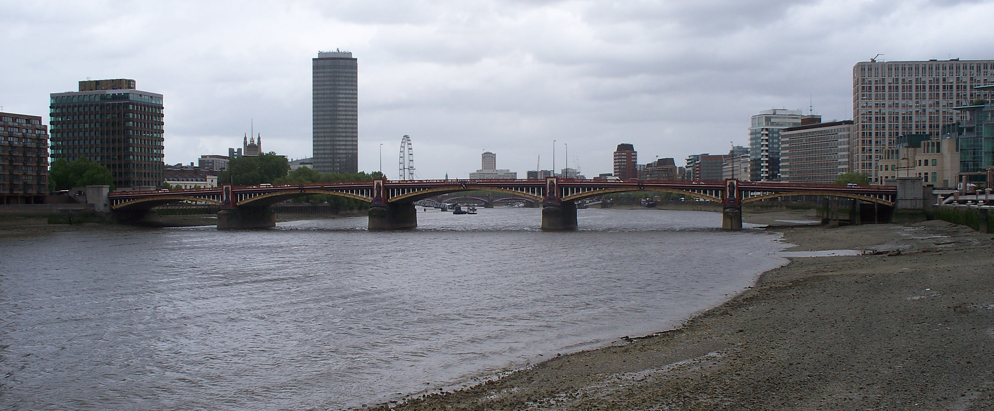 Vauxhall Bridge, London. Photograph taken in a public location in the UK of a building on permanent public display, and exempt from copyright under Section 62 of the Copyright Designs & Patents Act 1988 ("it is not an infringement of copyright to film, photograph, broadcast or make a graphic image of a building, sculpture, models for buildings or work of artistic craftsmanship if that work is permanently situated in a public place or in premises open to the public")